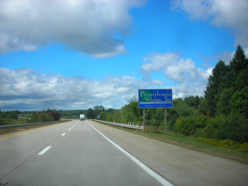 "Pennsylvania Welcomes You" sign on Interstate 86 westbound where the freeway crosses from New York to Pennsylvania.